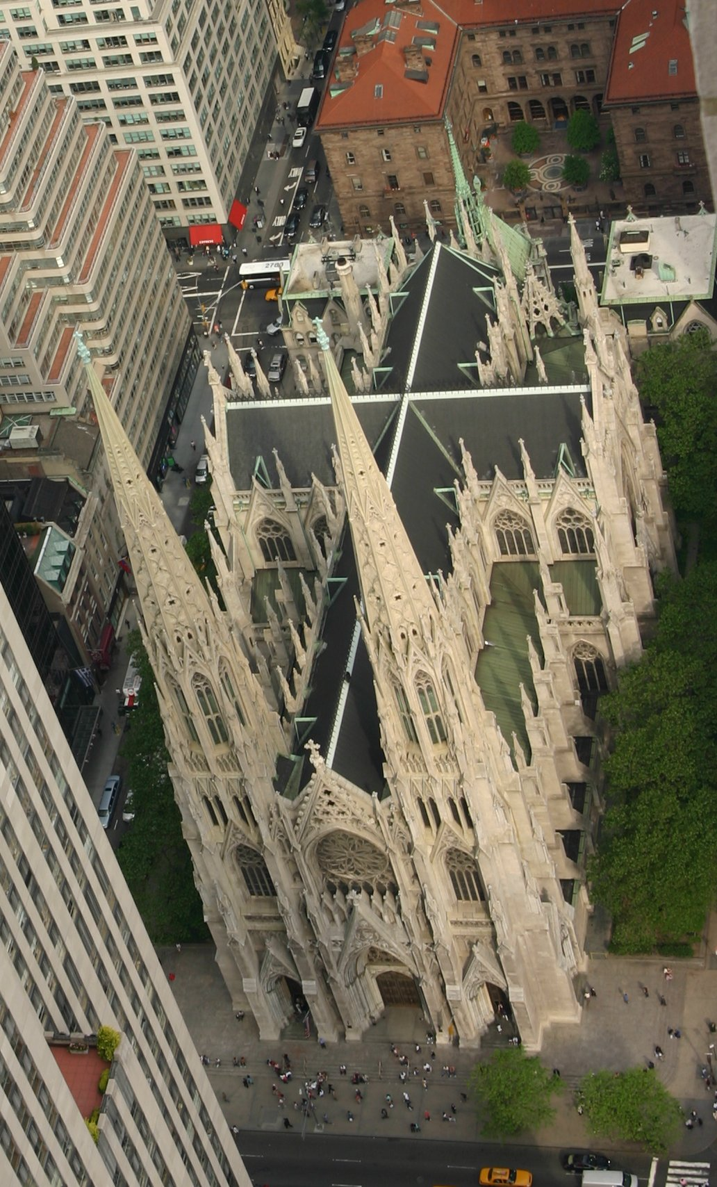 St. Patricks Cathedral. Taken from Rockefeller Center